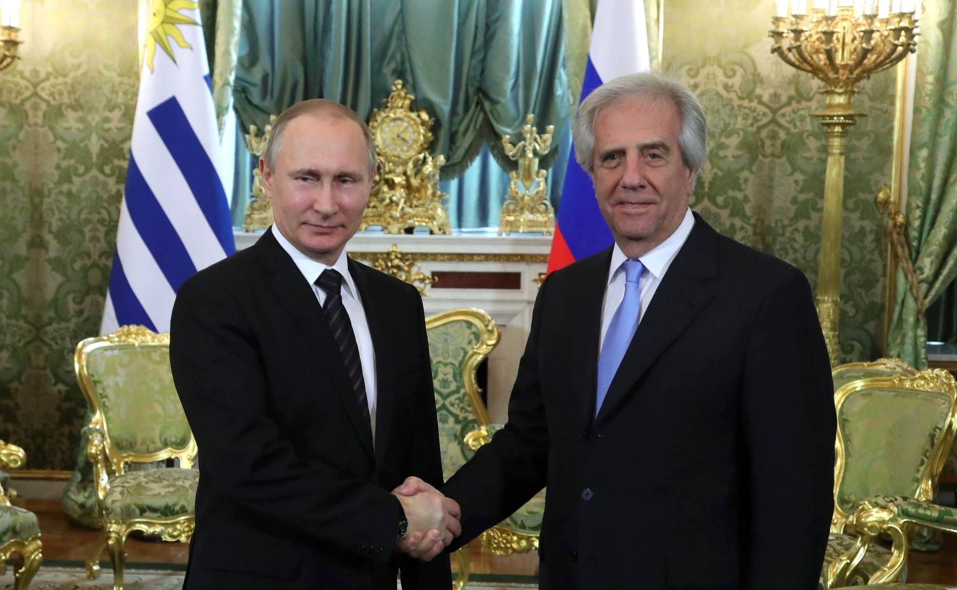 With President of Uruguay Tabare Vazquez